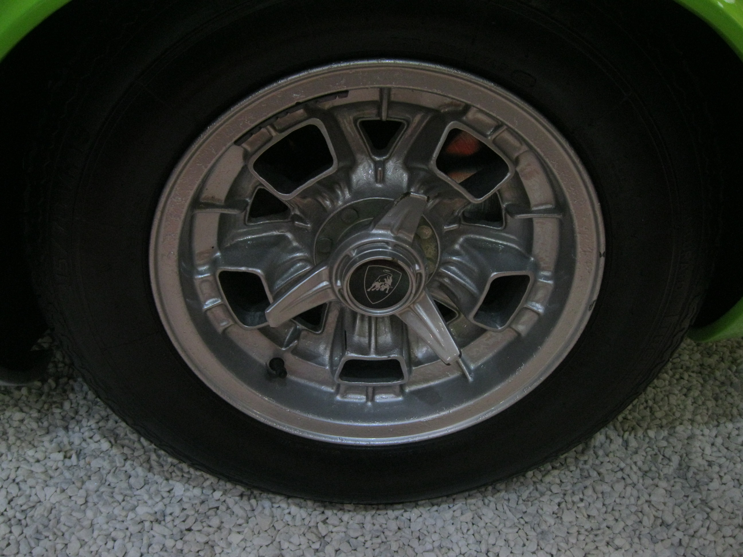 Exhibited at the NEC Birmingham Classic Car Show, November 15-17, 2013